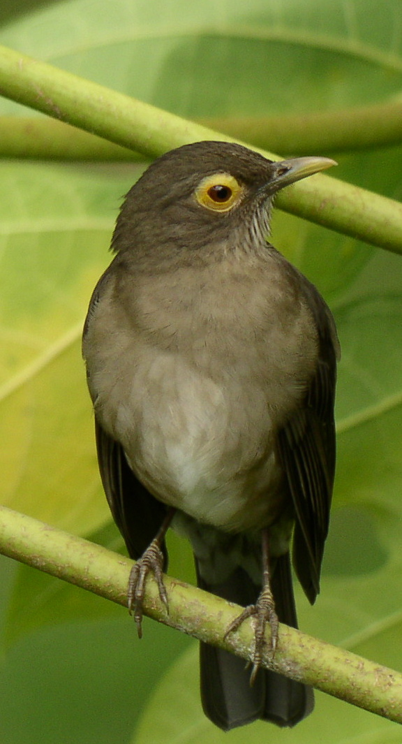 A Spectacled Thrush (Turdus nudigenis), perching at Arnos Vale Hotel, Tobago, Trinidad and Tobago